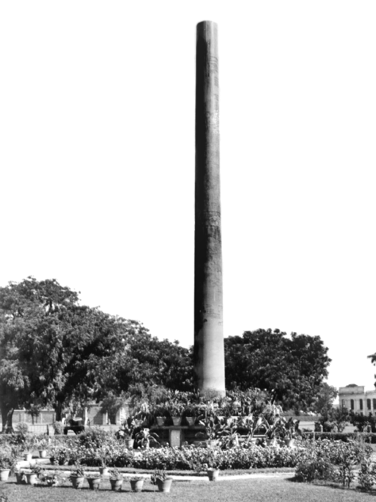 The Allahabad pillar in Allahabad on a photo from circa 1900 date QS:P,+1900-00-00T00:00:00Z/9,P1480,Q5727902. The pillar also contains inscriptions on Samudragupta and Jahangir. The pillar is made of polished stone extends 10.7 m in height and is incised with an Ashokan edict. This image was sourced from eBay.